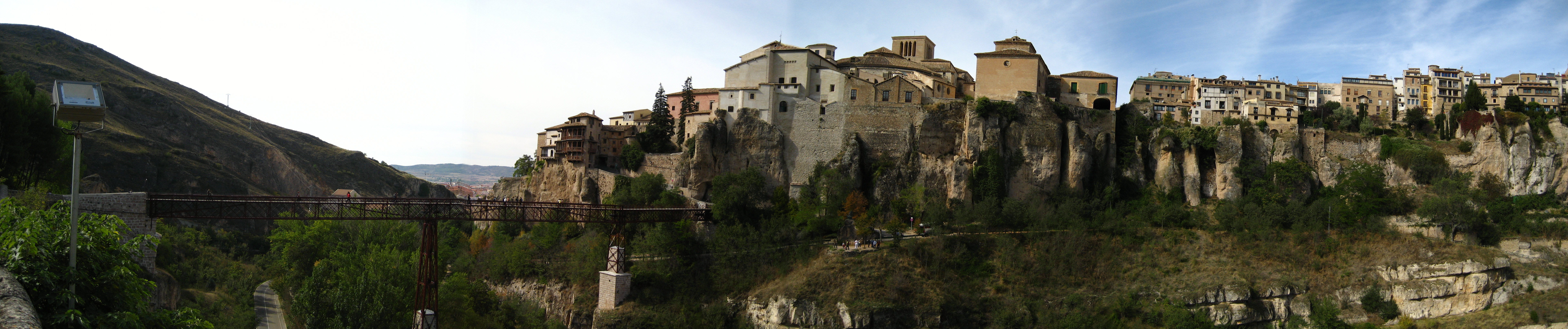 Panorama of the Hanging Houses at Cuenca